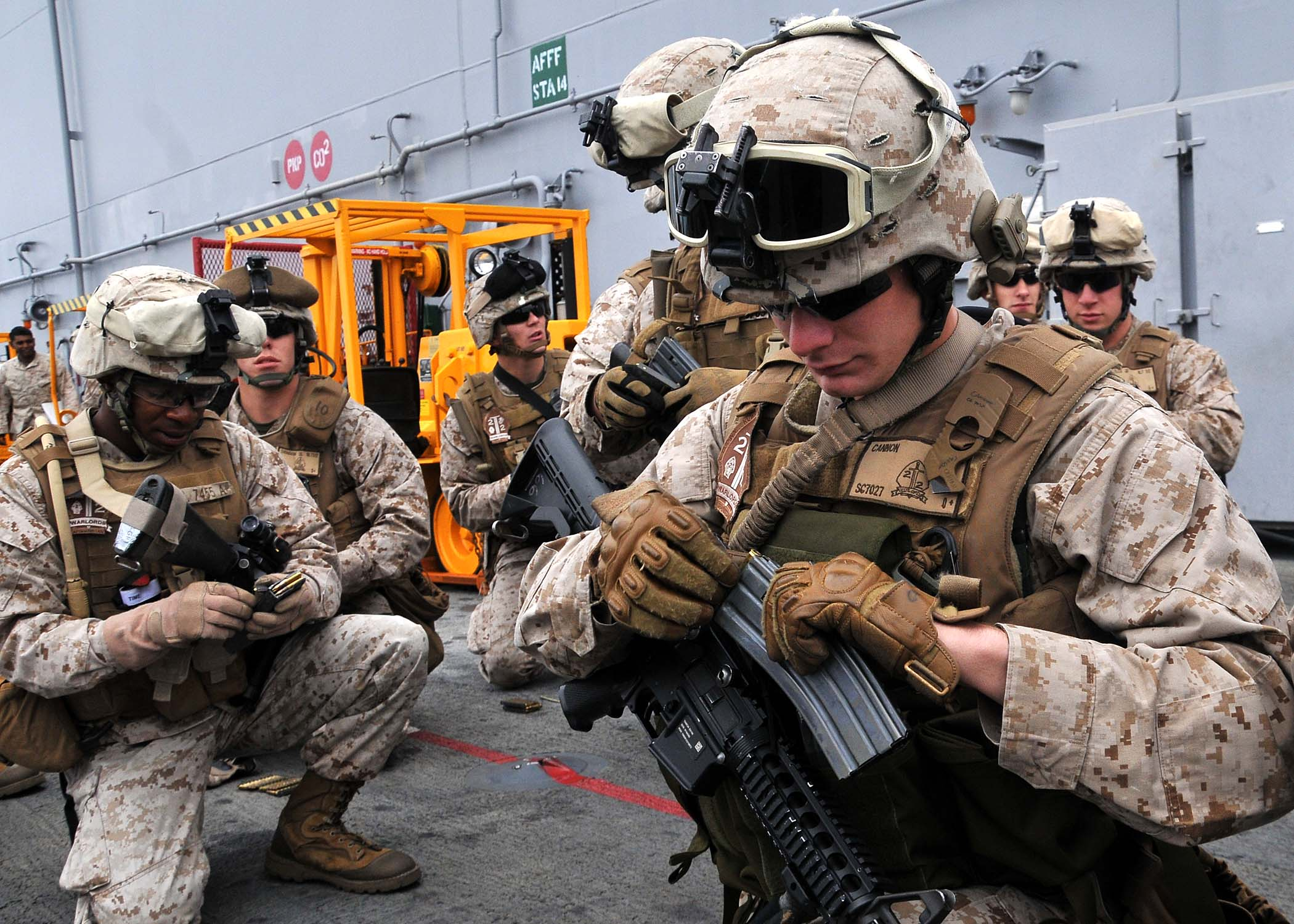 ATLANTIC OCEAN (April 20, 2011) Marines from the Battalion Landing Team, 2nd Battalion, 2nd Marine Regiment, 22nd Marine Expeditionary Unit (22 MEU), prepare for a small-arms training exercise aboard the multipurpose amphibious assault ship USS Bataan (LHD 5). Bataan is deploying to the Mediterranean Sea. (U.S. Navy photo by Mass Communication Specialist 3rd Class Erin Lea Boyce/Released)